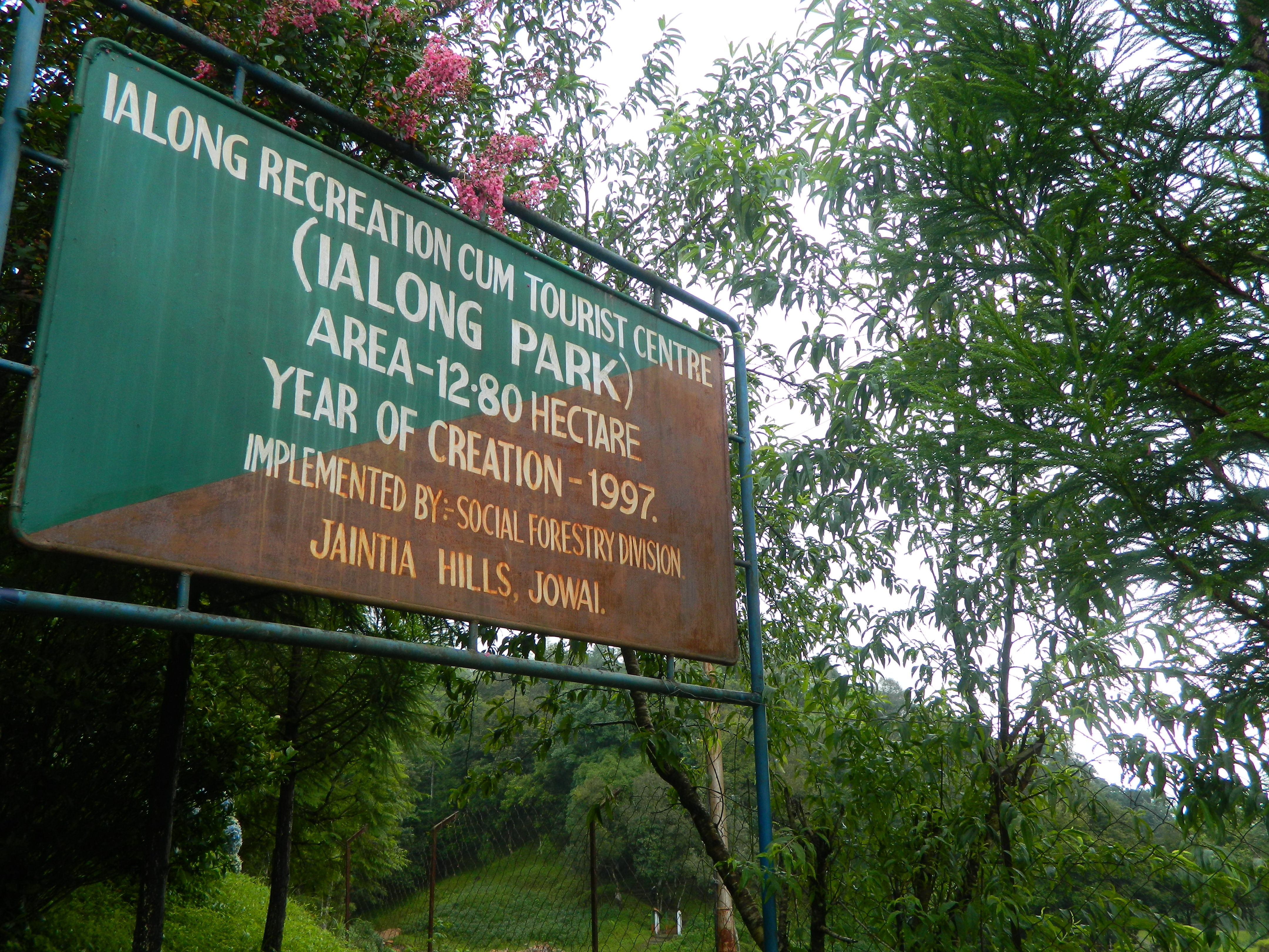 A picturesque view of the pynthor wah valley of the Myntdu river can be seen from this park.